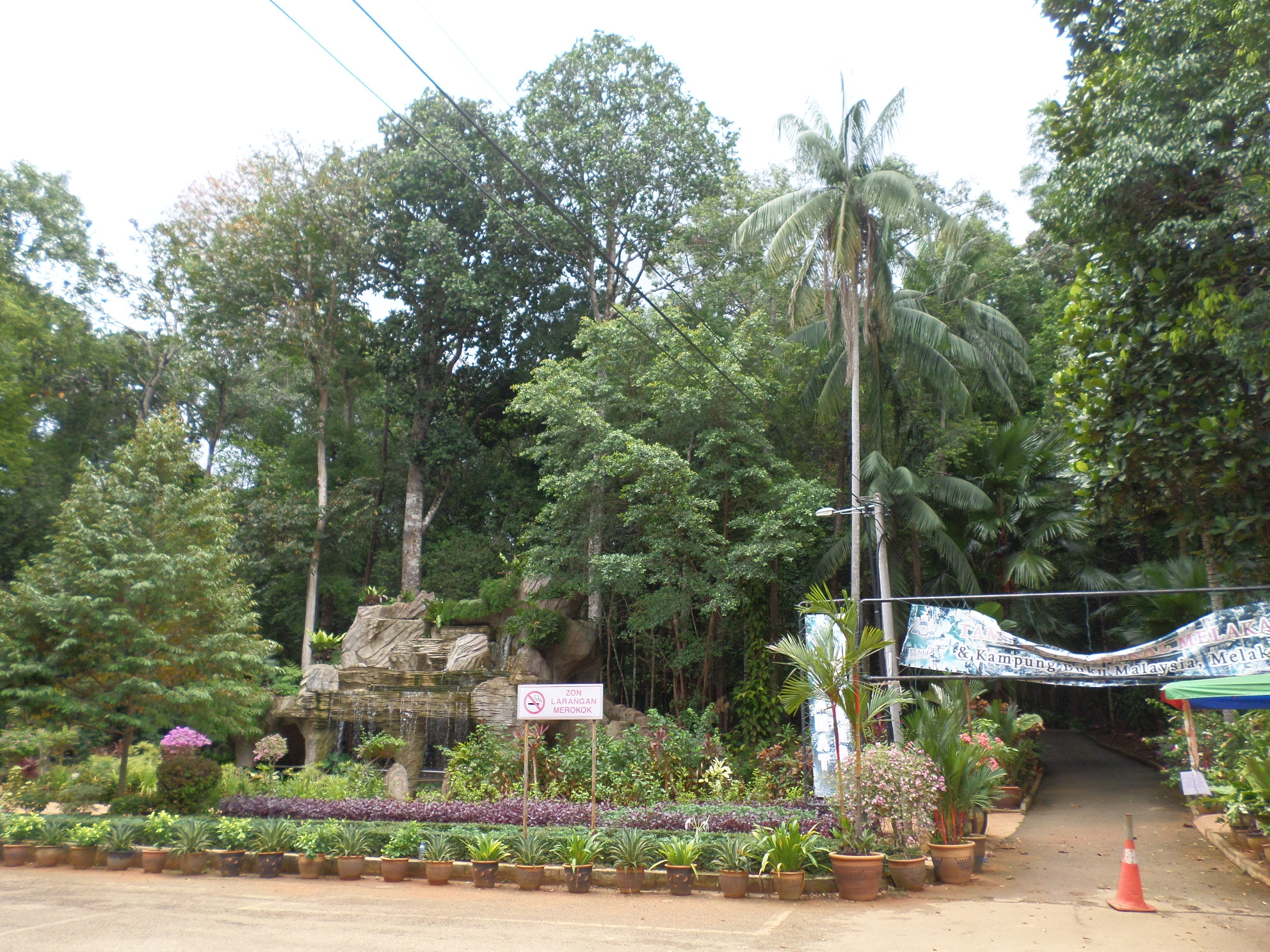 Melaka Botanical Garden, Ayer Keroh, Central Melaka, Melaka, MalaysiaBahasa Melayu: Taman Botanikal Melaka, Ayer Keroh, Melaka Tengah, Melaka, Malaysia